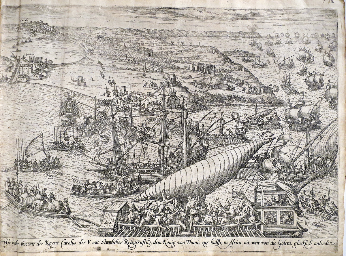 Battle of Tunis, 1535. Copper engraving by Frans Hogenberg, published in Cologne around 1600.